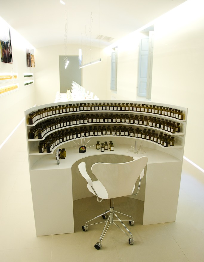 This thing is called a 'perfume organ' -- it's the place where perfume creators or 'noses' play around with hundreds of essences. Seen at the old Fragonard factory in Grasse.